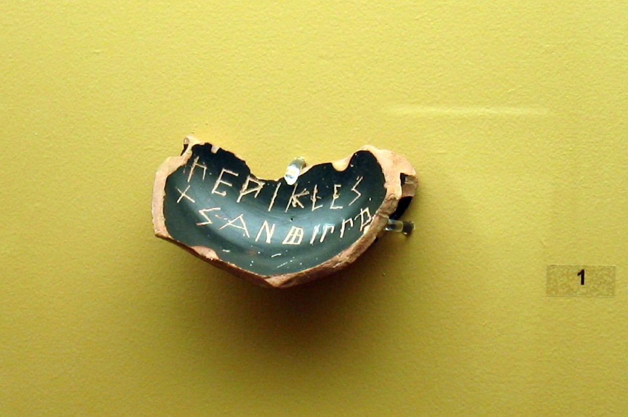 Ostrakon (piece of broken pottery as voting token) bearing the name of Pericles.Ancient Agora Museum in Athens.